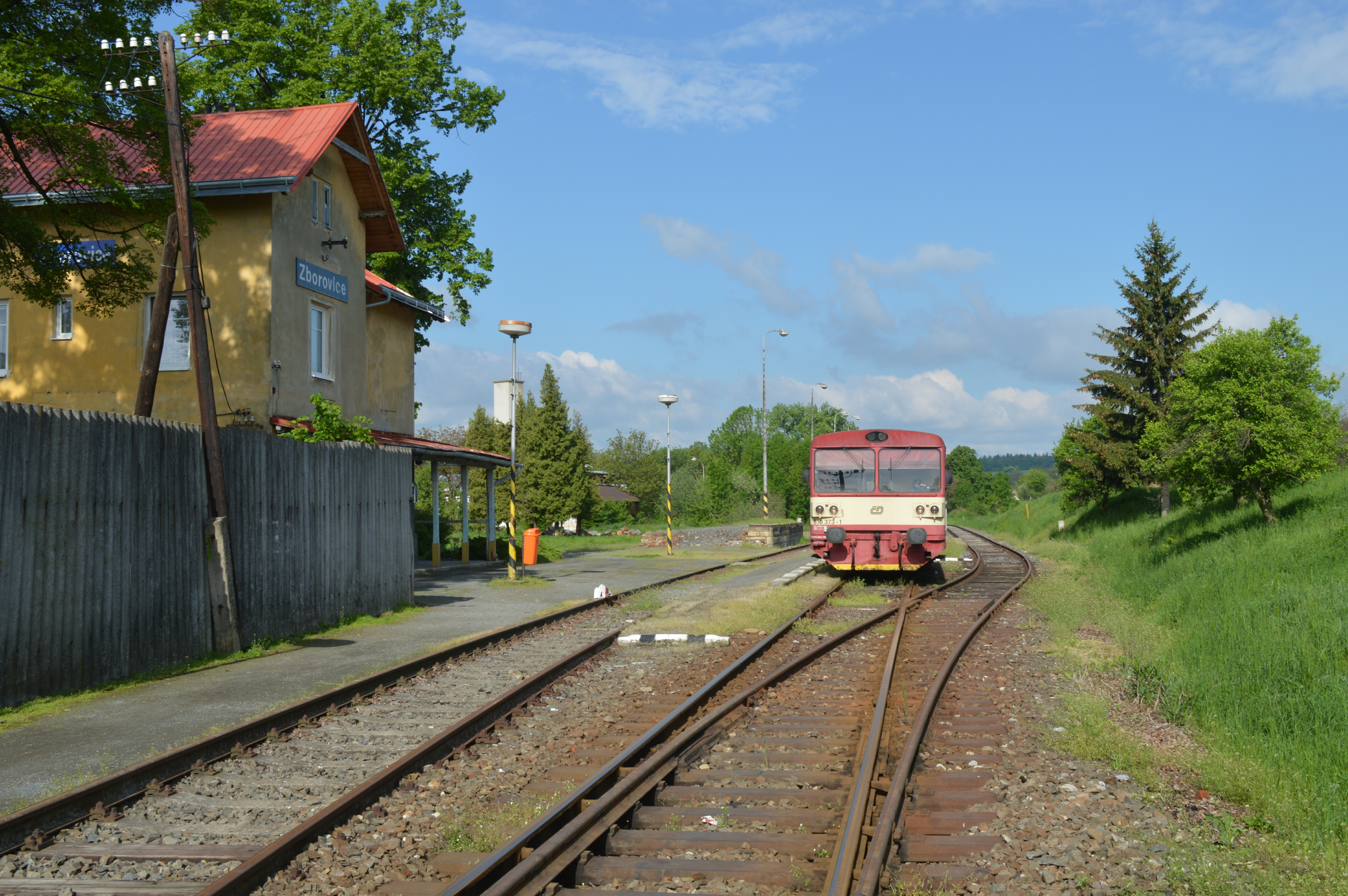 2013 Czech Republic Trip Day Three Typical rural branch line end station in the Czech Republic - single car unit and track work still permitting running round. On 13 May 2013, 810.373 is ready to work train Os13908, 09:20 Zborovice to Kroměříž.